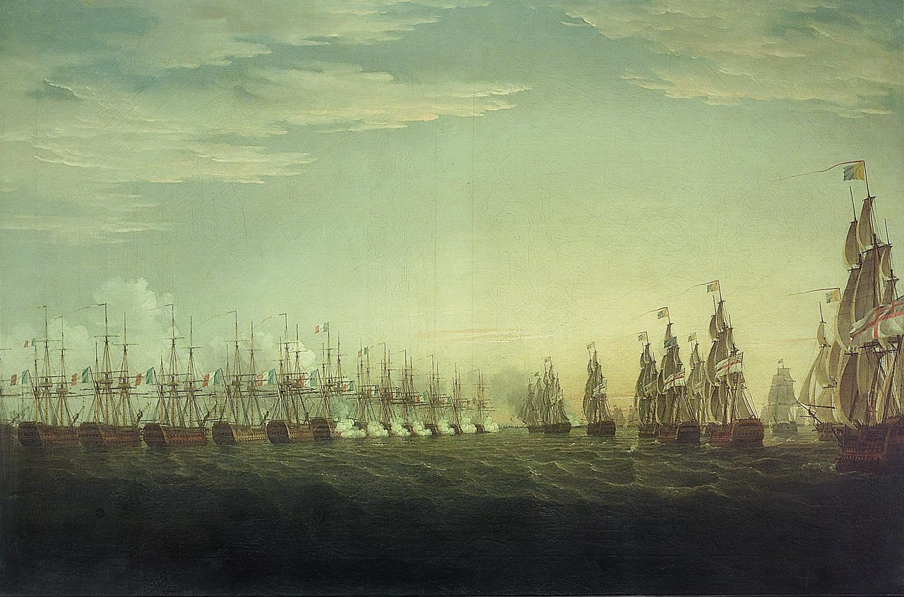 The painting shows the scene at 6.30 pm, with the French fleet in starboard-quarter view, anchored and visible across the left half of the picture.